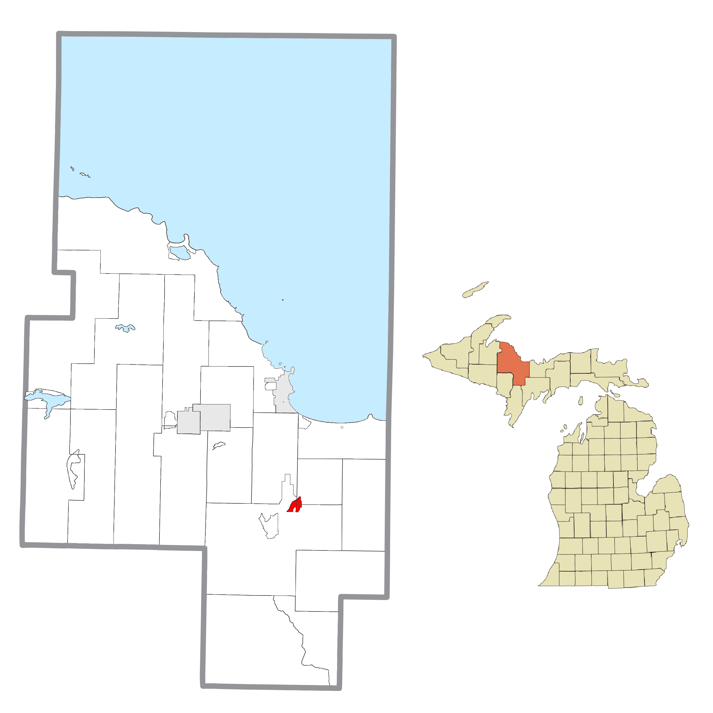 K.I. Sawyer Air Force Base, MI